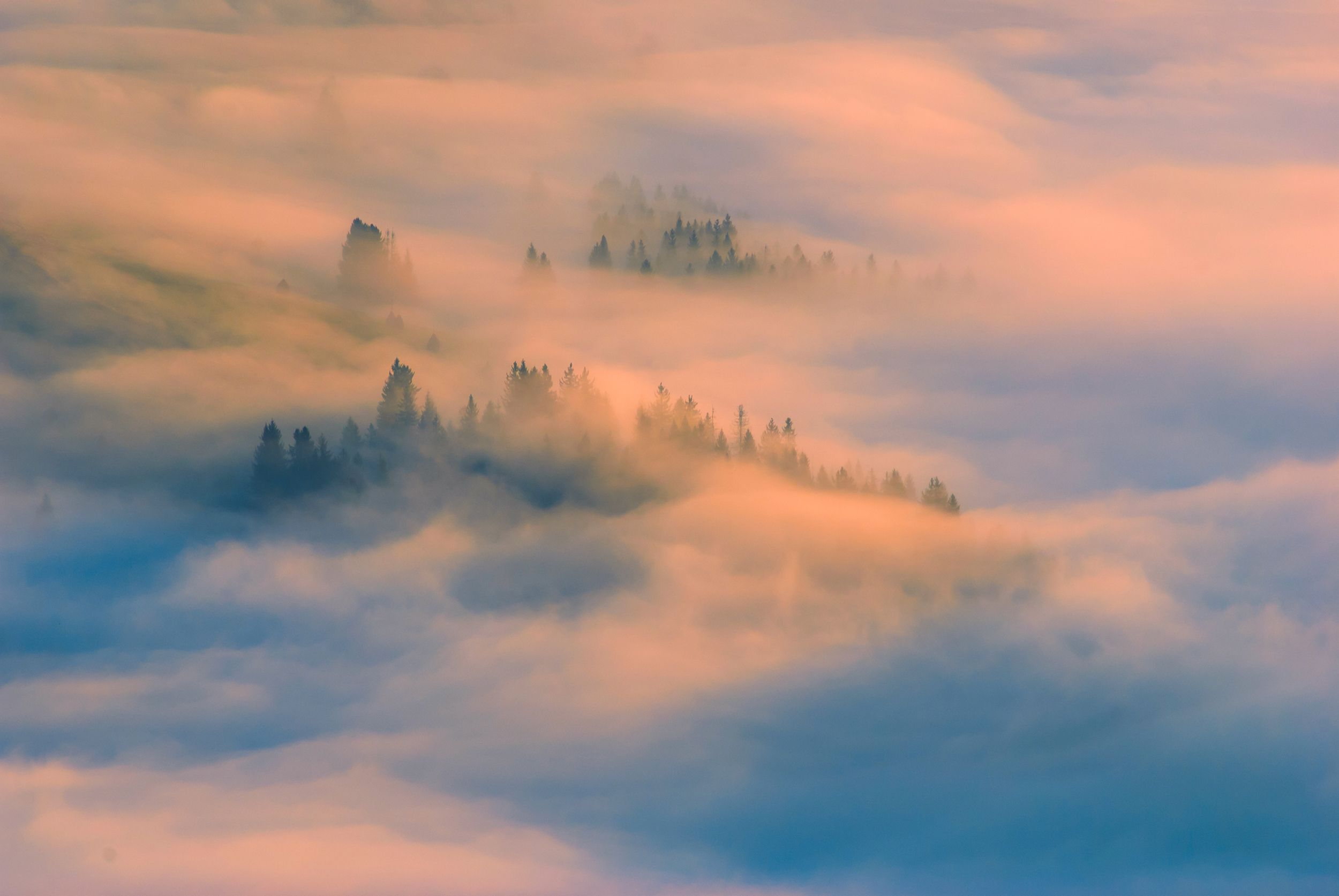 A foggy morning in the Carpathian mountains. Carpathian Biosphere Reserve, Ukraine